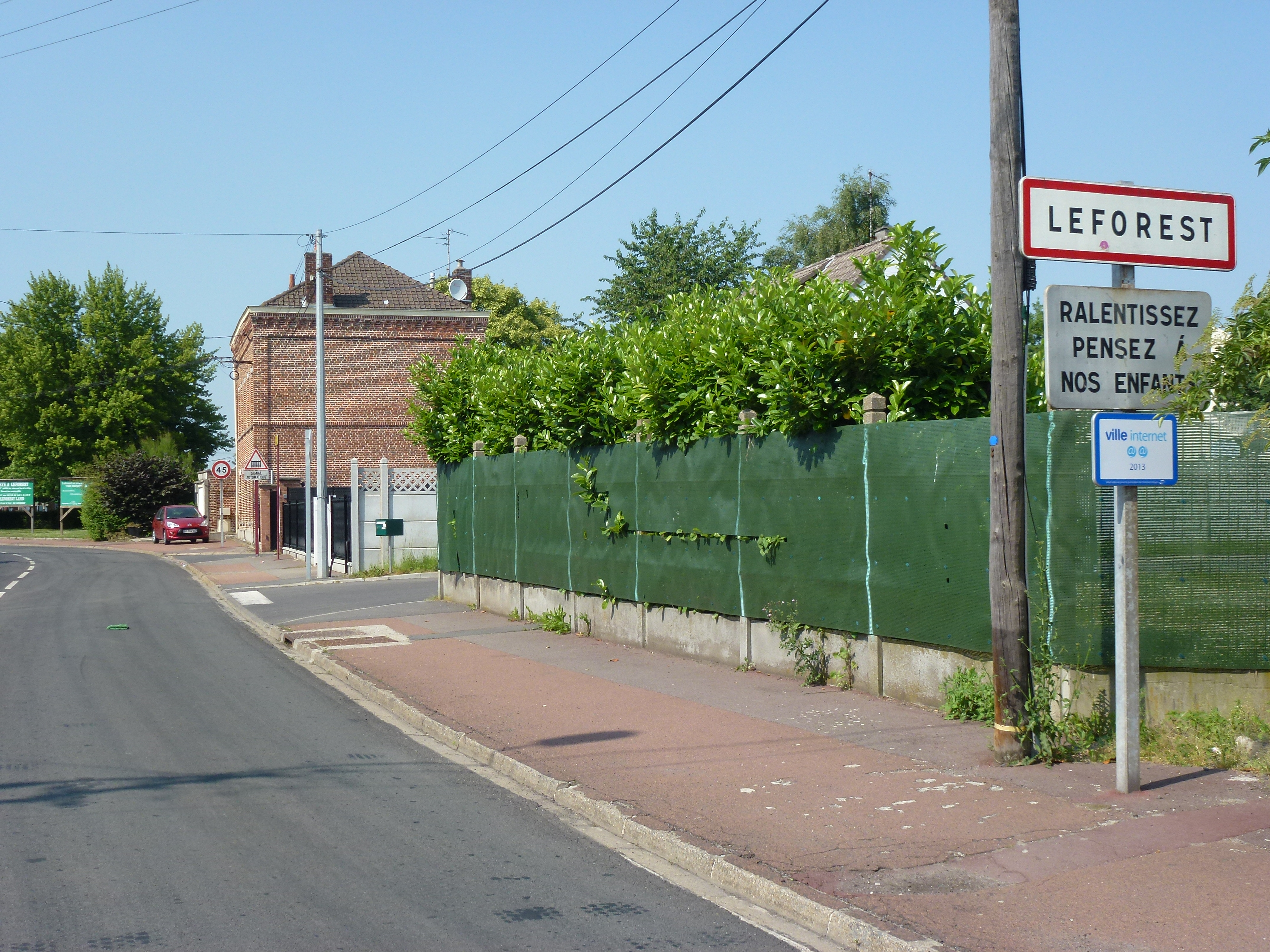 Leforest (Pas-de-Calais, Fr) city limit sign